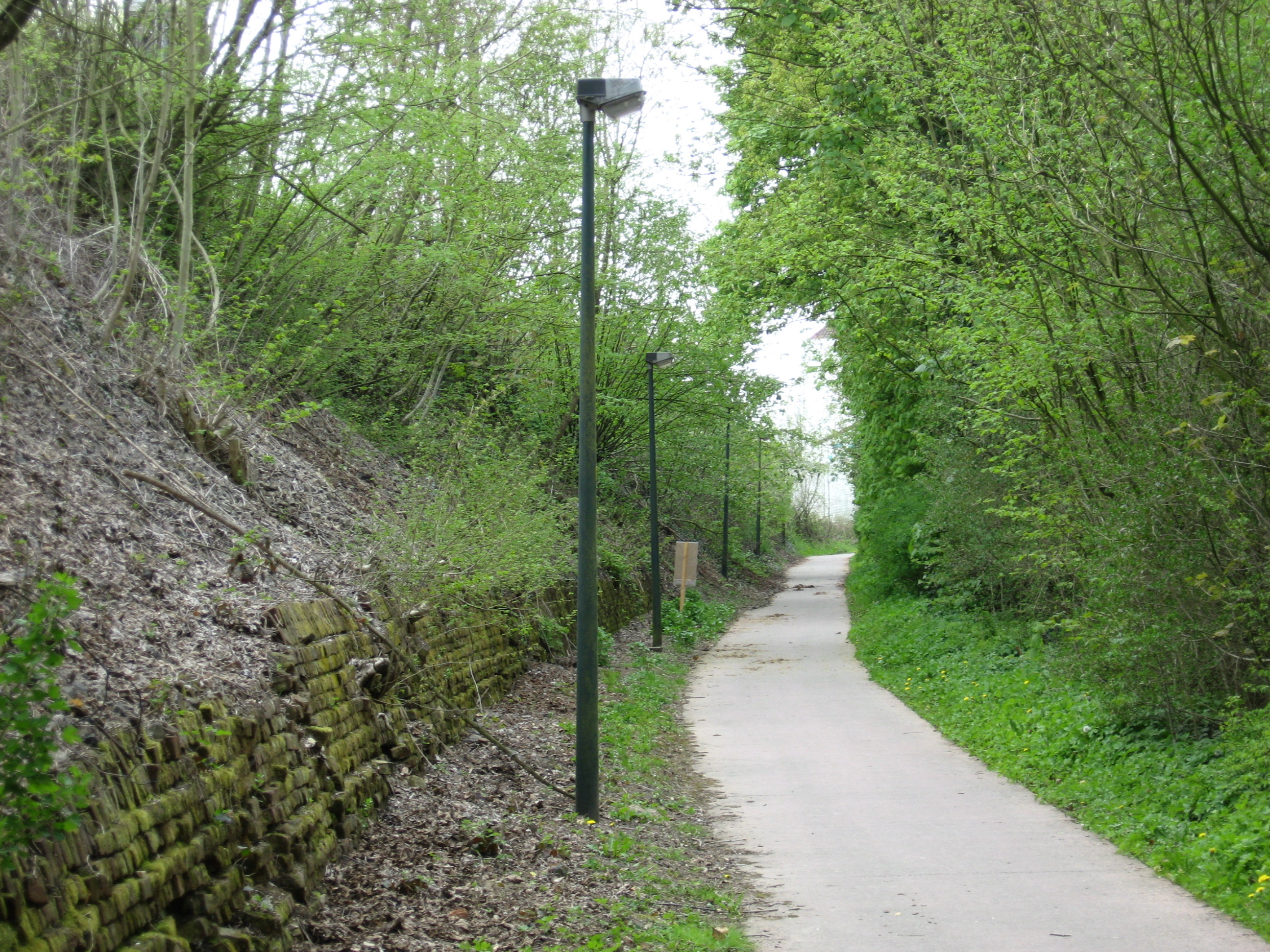 vicinal railway going to Groenendaal station. Is now a bicycle path